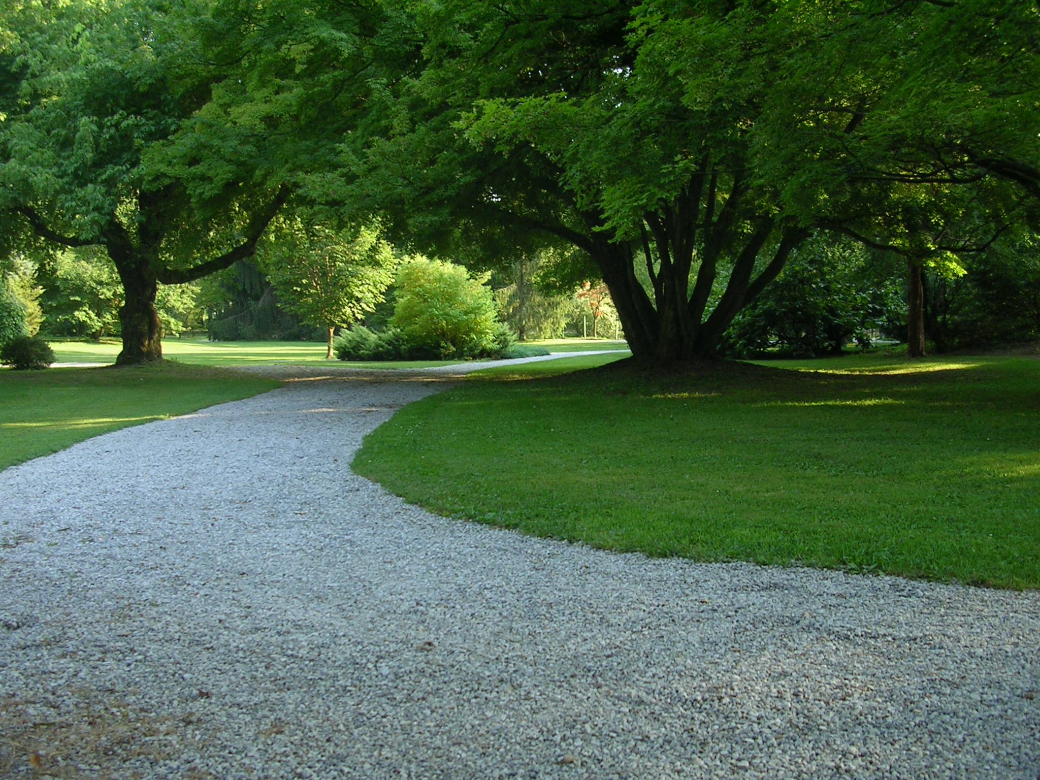 Path in Arburetum Volcji Potok - whit glod crop law